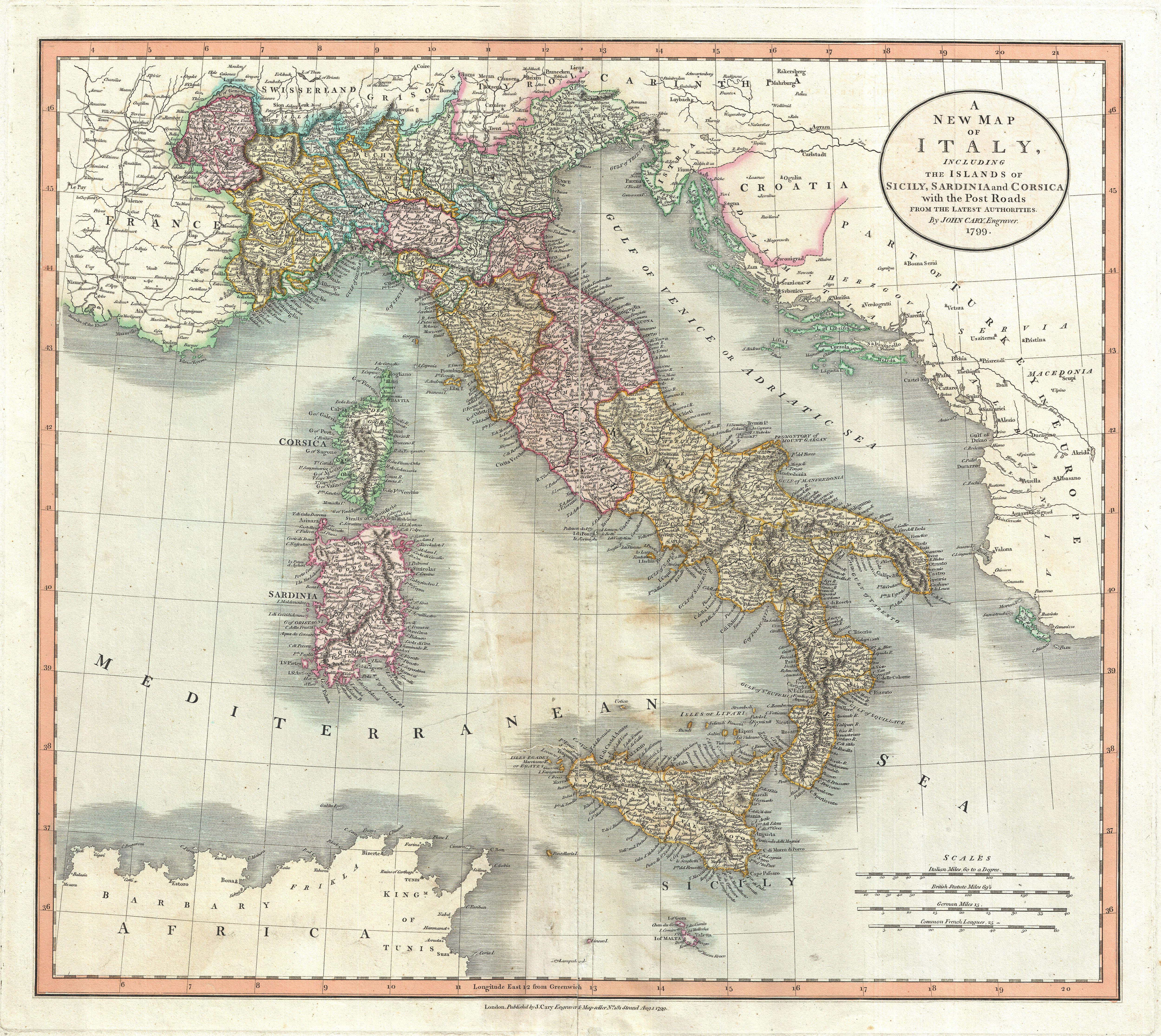 An exceptionally beautiful example of John Cary’s important 1799 Map of Italy. Includes the peninsula of Italy as well as the islands of Corsica, Sardinia and Sicily. Extends north as far as Switzerland and Tyrol. When this map was made Italy had yet to begin its campaign for national solidarity. The peninsula of Italy is shows divided between the Duchy of Tuscany, the Papal States, and the Kingdom of Naples. Northern Italy is divided into numerous smaller duchies and republics including Venice, Parma, Mantua, Modena, Milan, Piedmont, Savoy, et al. Includes adjacent parts of France, north Africa, Croatia and Turkey. All in all, one of the most interesting and attractive atlas maps of Italy to appear in first years of the 19th century. Prepared in 1799 by John Cary for issue in his magnificent 1808 New Universal Atlas .